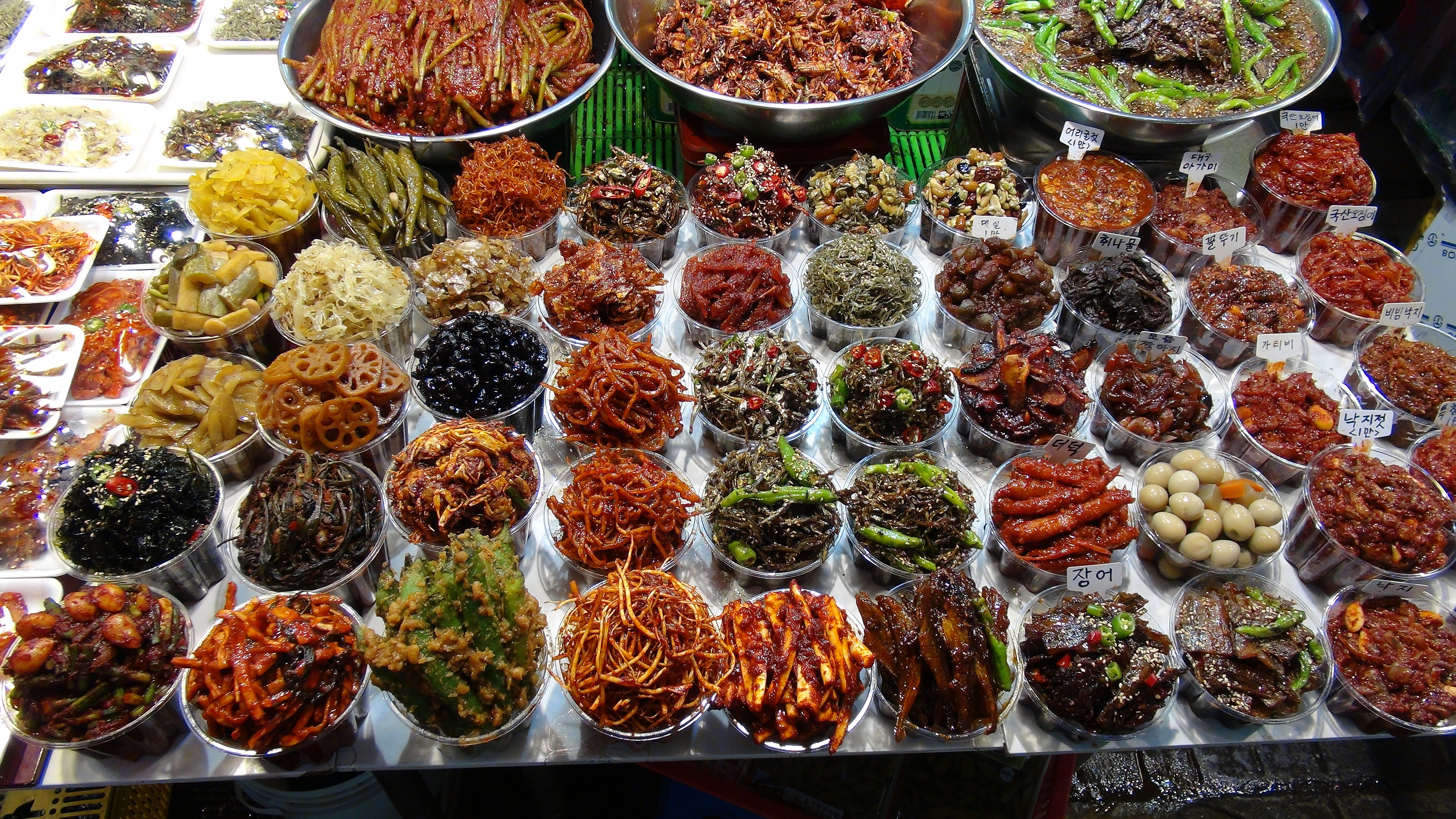 banchan (side dishes) in a traditional market